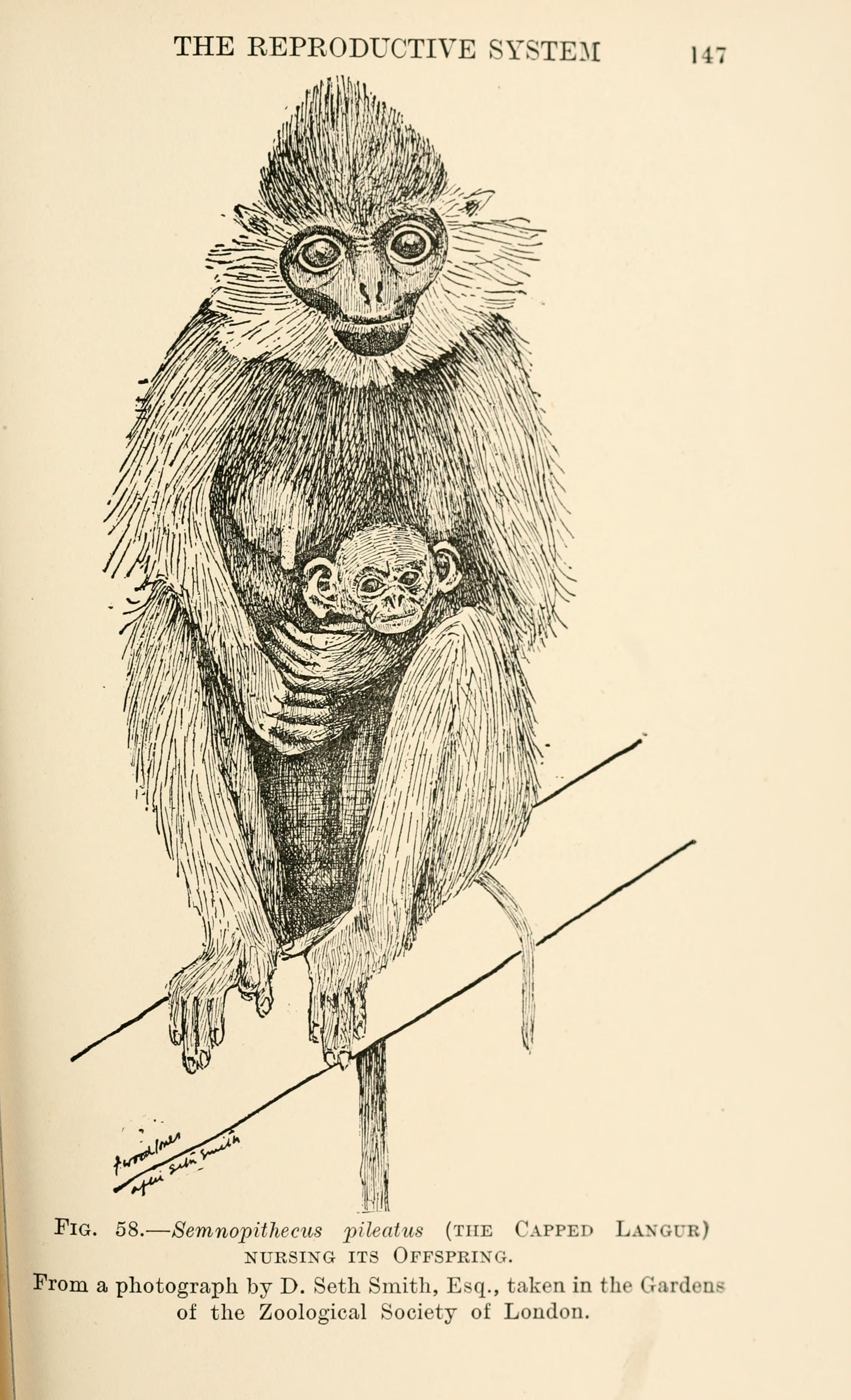 Title: Arboreal man Year: 1916 (1910s) Authors: Jones, F. Wood (Frederic Wood), 1879-1954 Subjects: Human beings -- Origin Publisher: London, E. Arnold Text Appearing Before Image: THE REPRODUCTIVE SYSTEM U' Text Appearing After Image: Fig. 58.—Semnopithecus pileatus (the Capped Langur) NURSING ITS Offspring. From a photograph by D. Seth Smith, Esq., taken in the Gardens of the Zoological Society of Loudon.